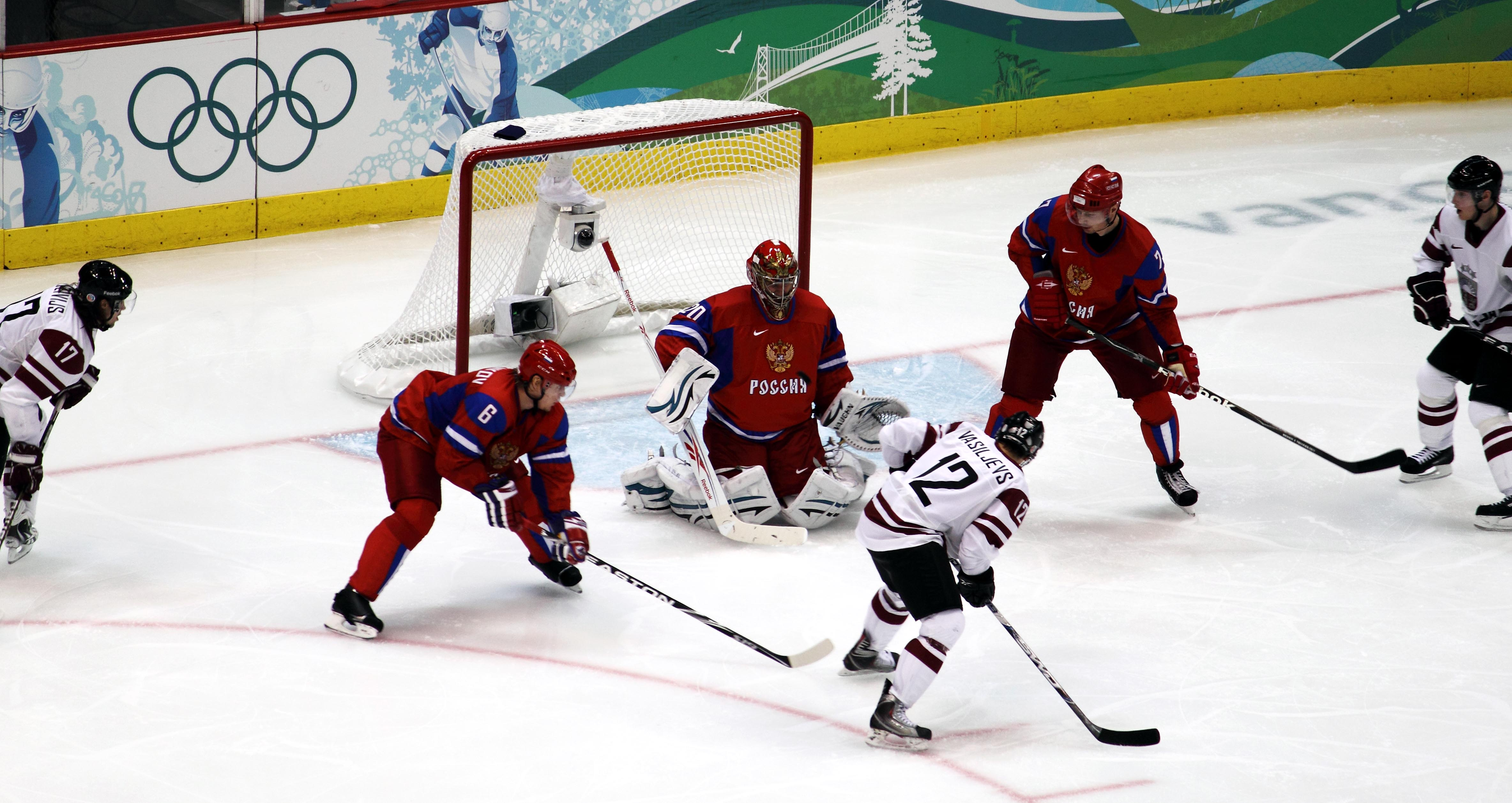 Russia vs Latvia. 2010 Vancouver Olympic Games.